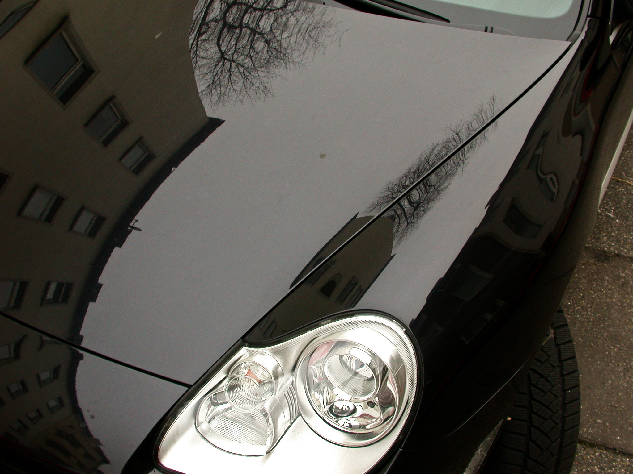 One of car designer Harm Lagaay's favourite curves is the S-curve of the Porsche family of 2004. Depicted here: the Porsche Cayenne, first generation